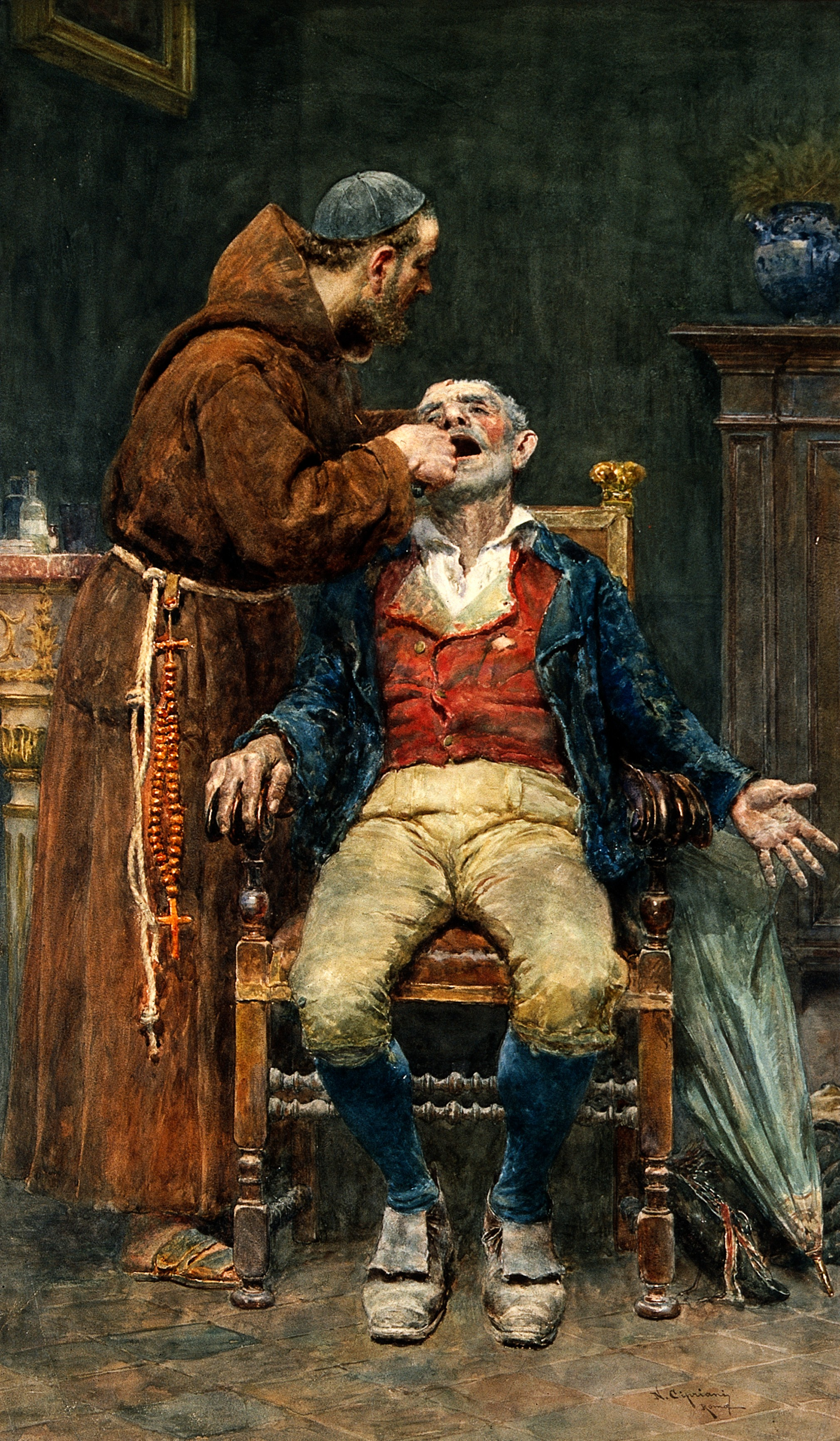 A friar extracting a tooth. Watercolour by N. Cipriani. Iconographic Collections Keywords: Nazzareno Cipriani